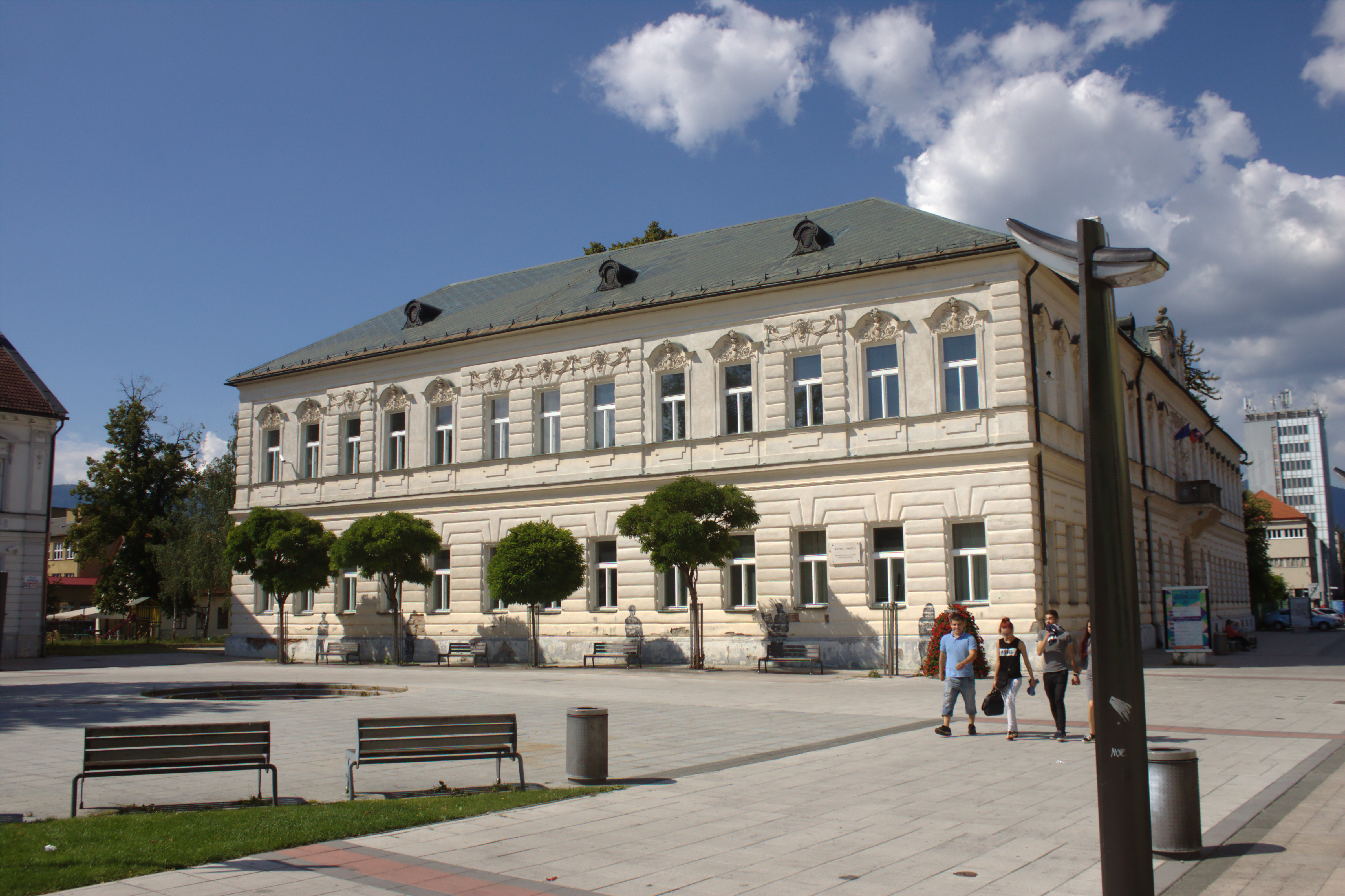 Literature museum in Martin, SK